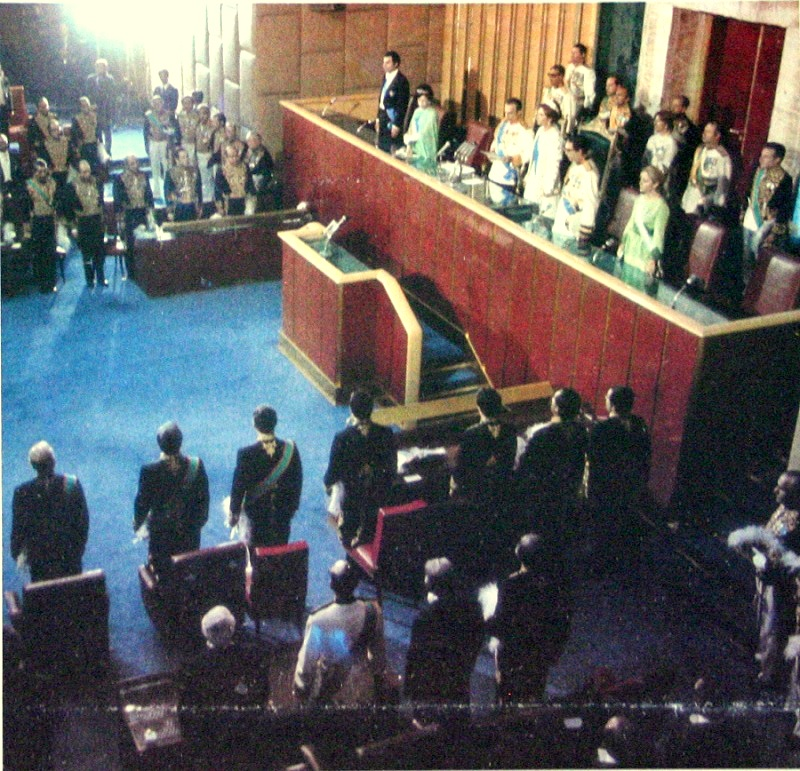 Mohammad-Reza Shah Pahlavi and the Royal Family at Persian (Iranian) Senate, Tehran, 1975. Source: Kayhan International Weekly, No. 385, 13 September 1975. (Copyright Note: Based on Iranian (Persian) law, the copyright of such materials will be expired after 30 years)